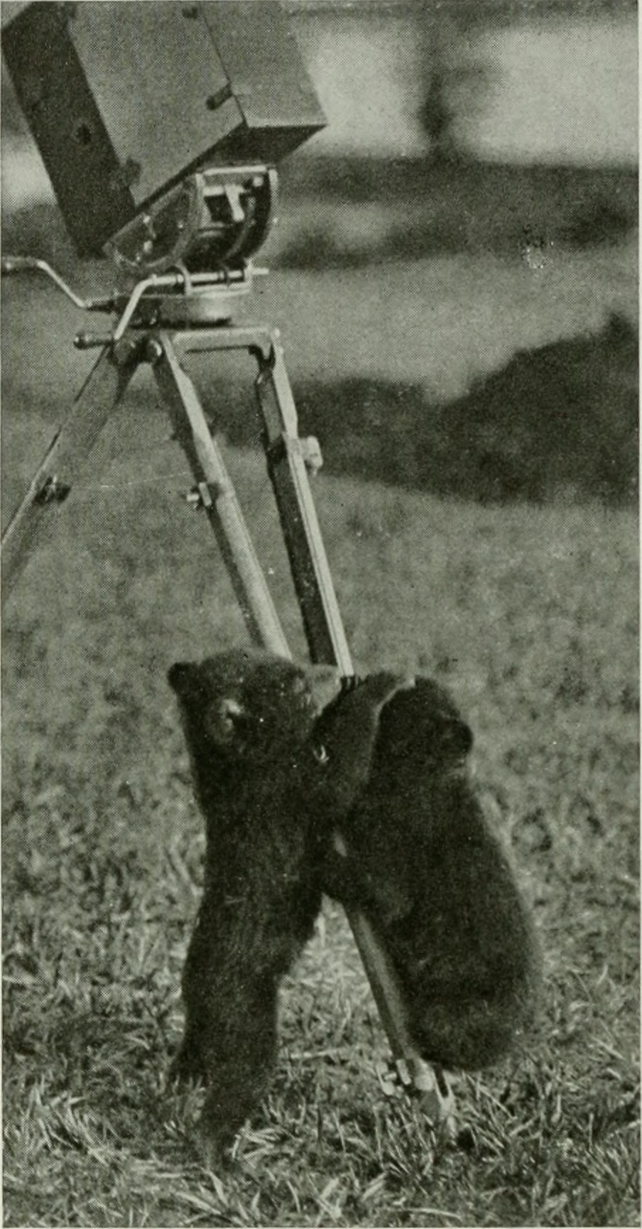 Title: The American Museum journal Year: c1900-(1918) (c190s) Authors: American Museum of Natural History Subjects: Natural history Publisher: New York : American Museum of Natural History Text Appearing Before Image: 520 THE AMERICAN MUSEUM JOURNAL Text Appearing After Image: '